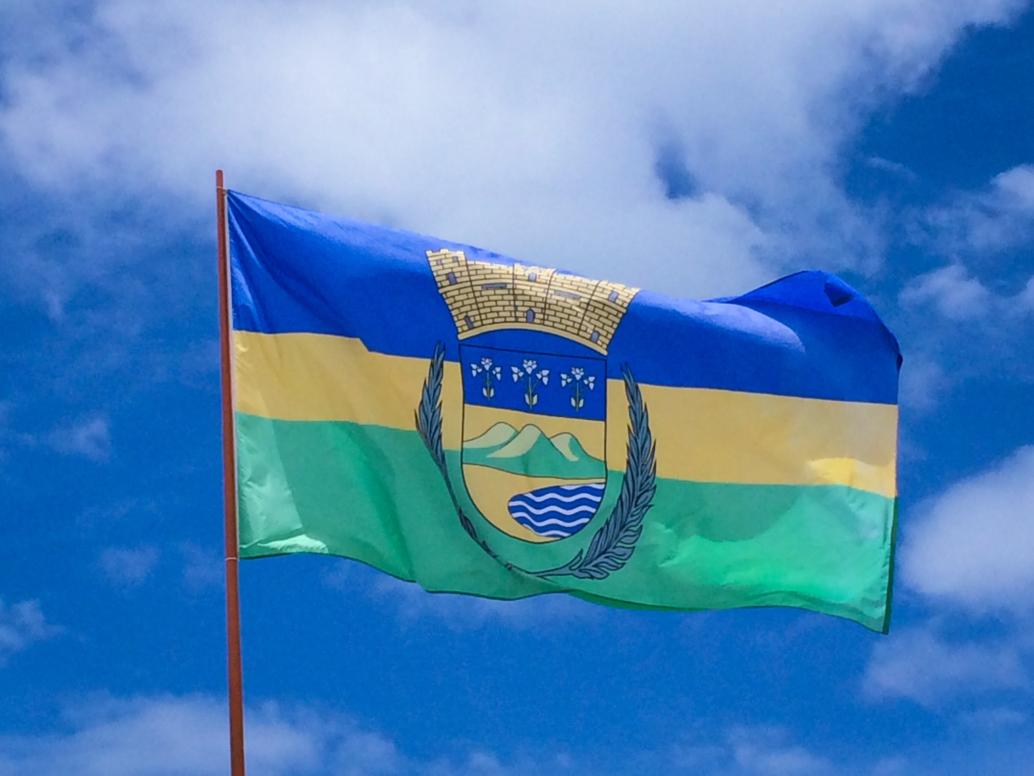 La bandera de Luquillo izando en el 9no Festival del Tinglar en la Plaza de Recreo Rosendo Matienzo Cintrón en Luquillo